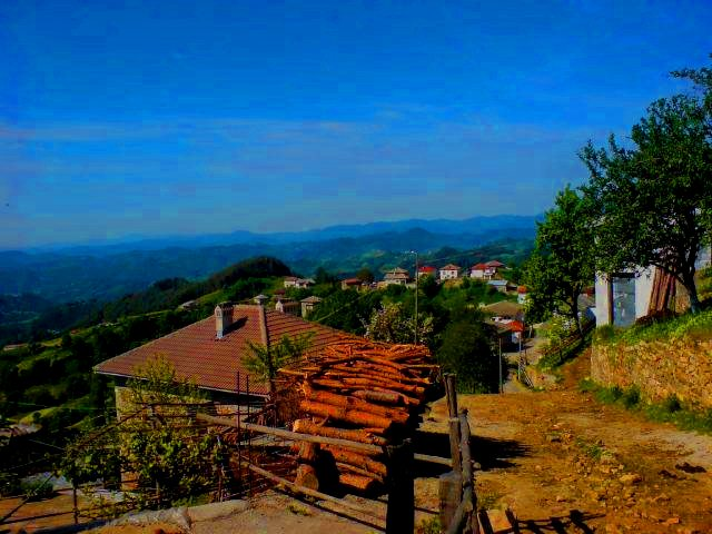 Махала Аптовце-Чукана,Гърнати